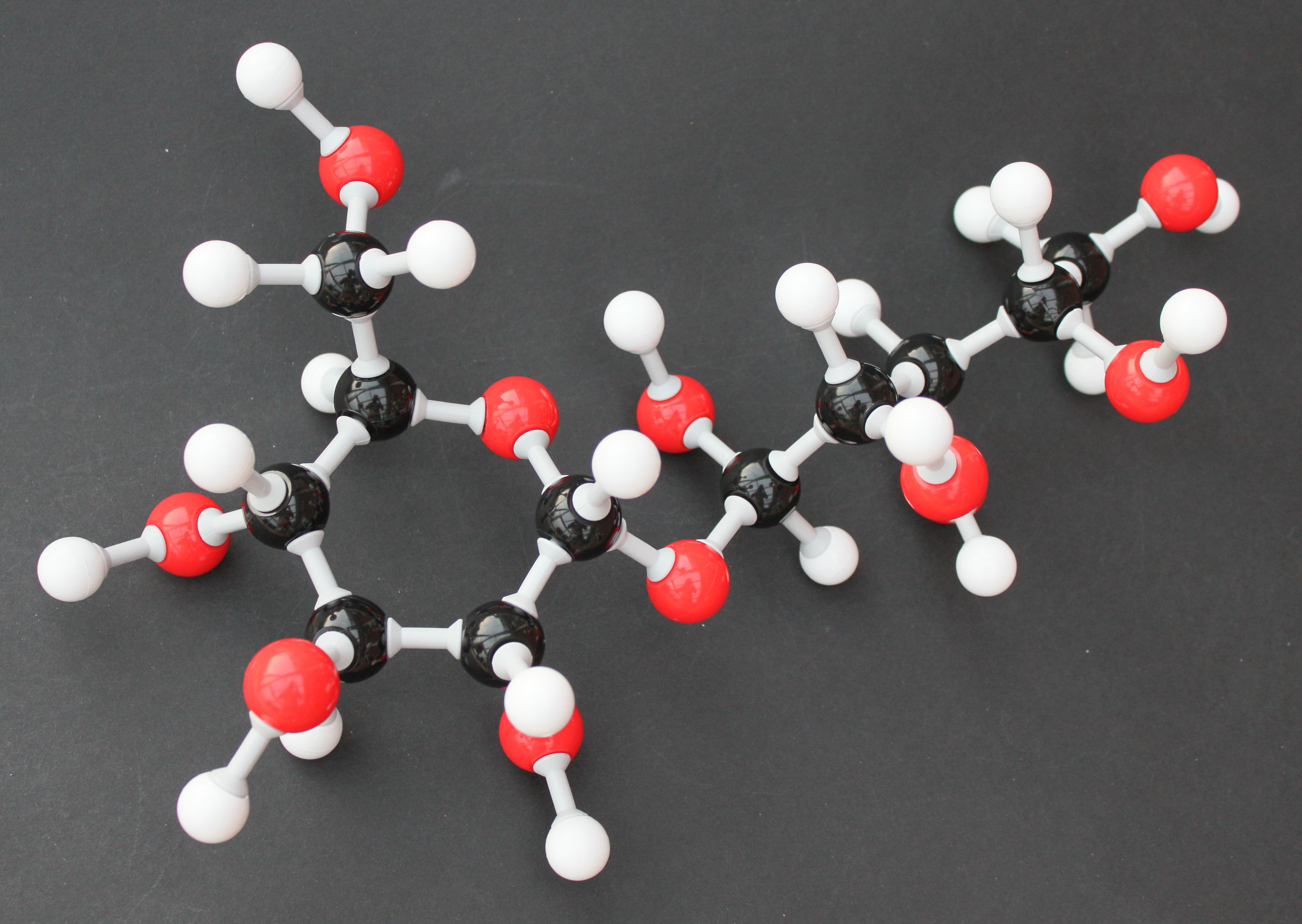 Chemical structures constucted with Prentice Hall Molecular Model Set for General Organic Chemistry